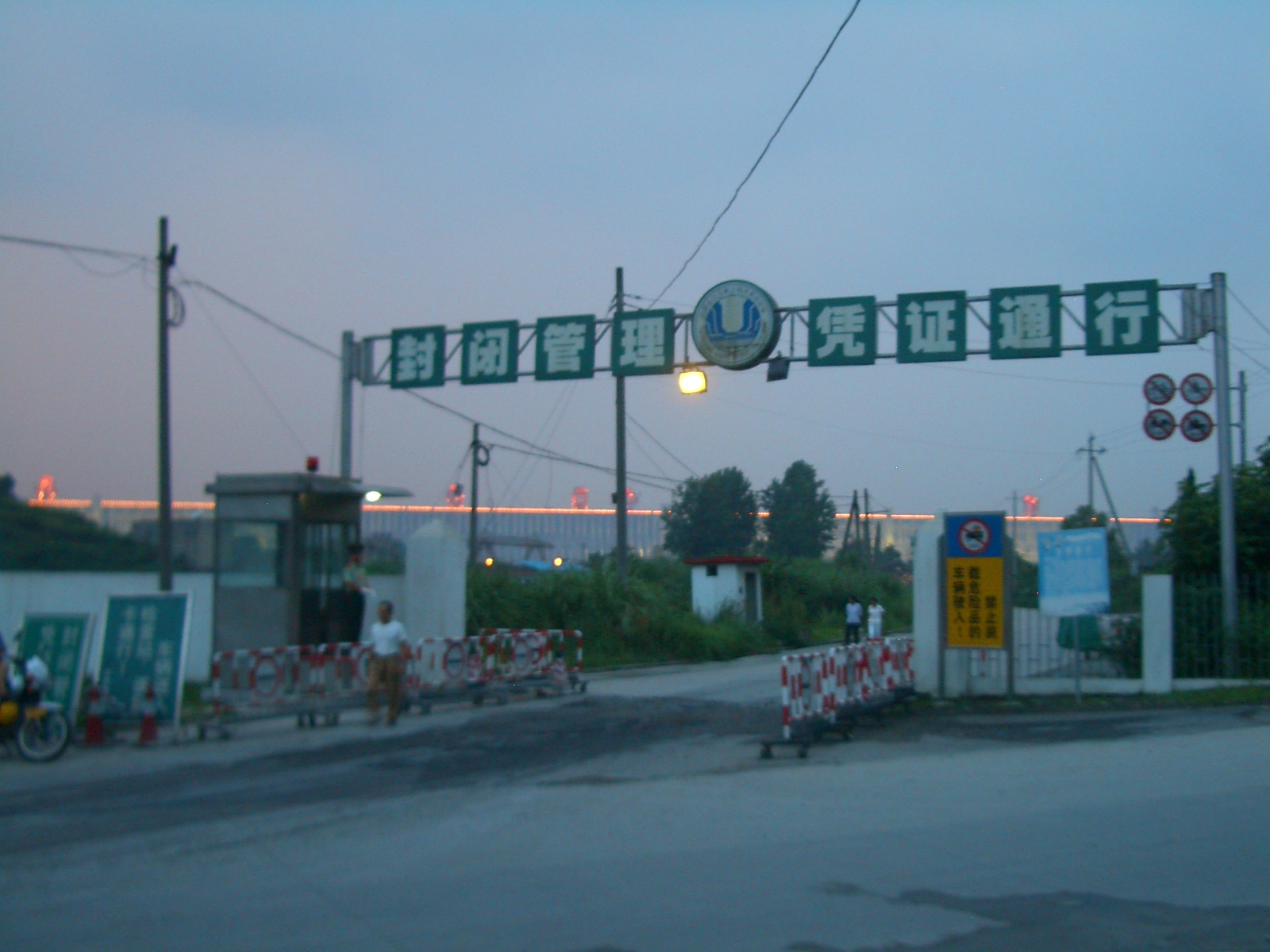 Southern (staff) entrance to the Three Gorges Dam, can be conveniently used by the employees who live in Sandouping next door. The dam itself can be partially seen in the background